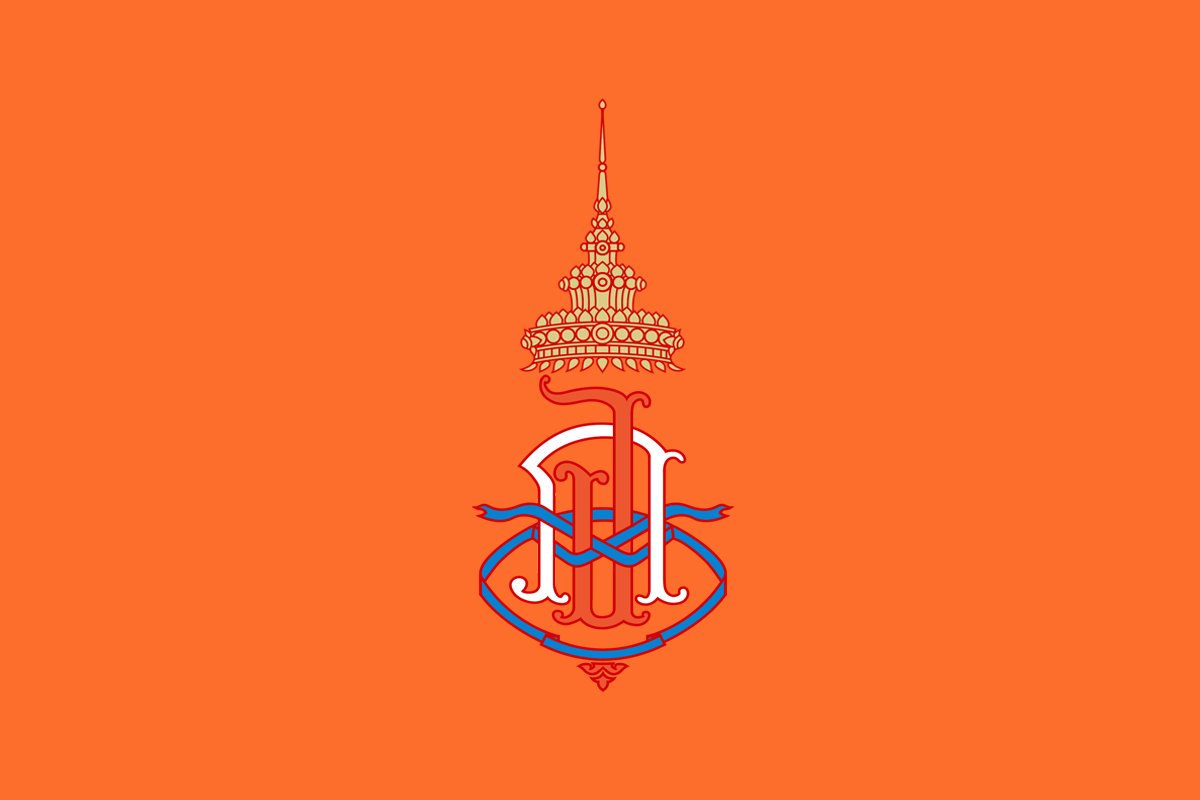 Royal Cypher of HRH Princess Chulabhorn Walailak, with orange flag (the Princess’ birthday colour), the middle is the Royal Cypher, topped by the simplified crown.